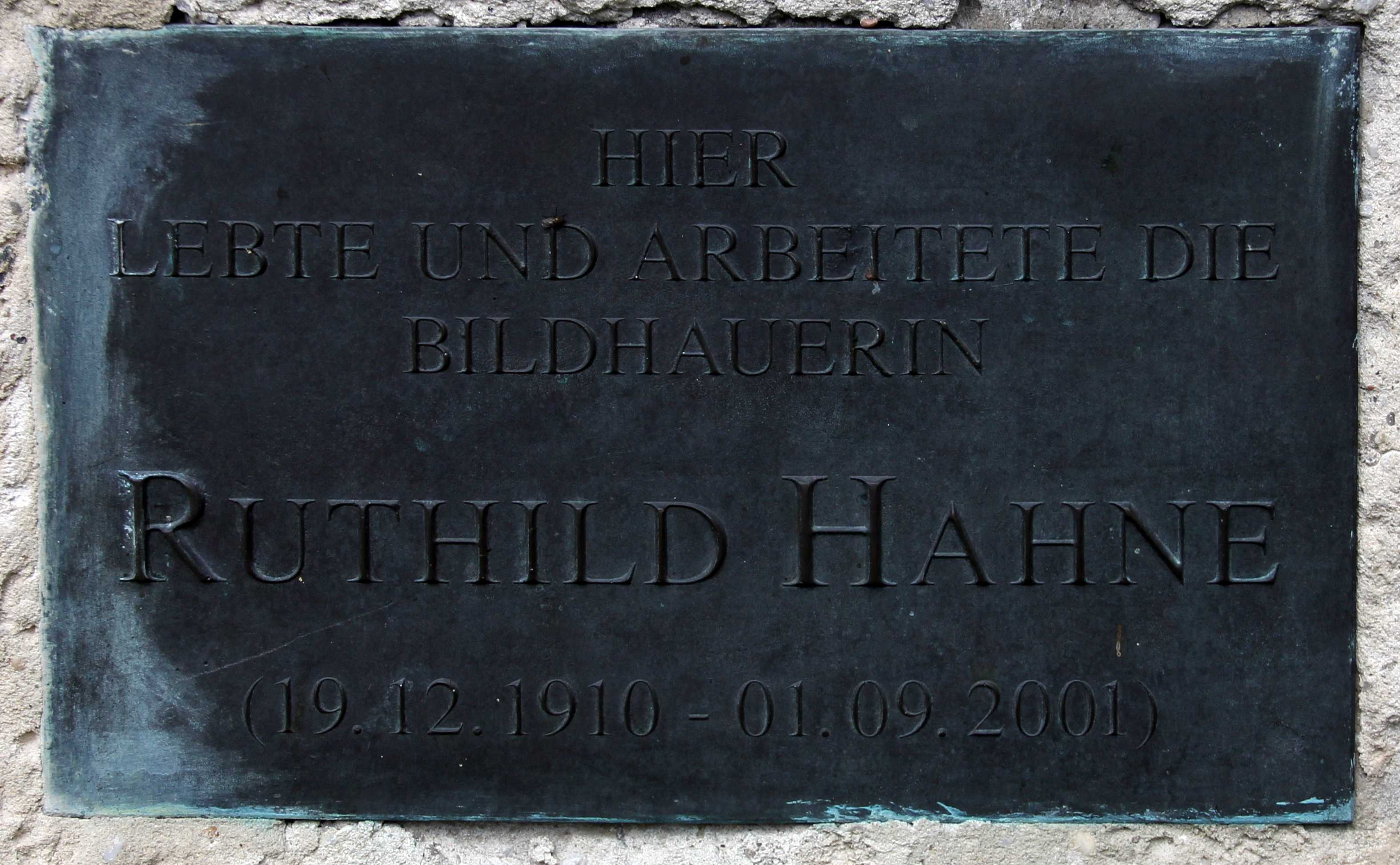 Memorial plaque, Ruthild Hahne, Beatrice-Zweig-Straße 1, vorher Straße 201 1, Berlin-Niederschönhausen, Germany